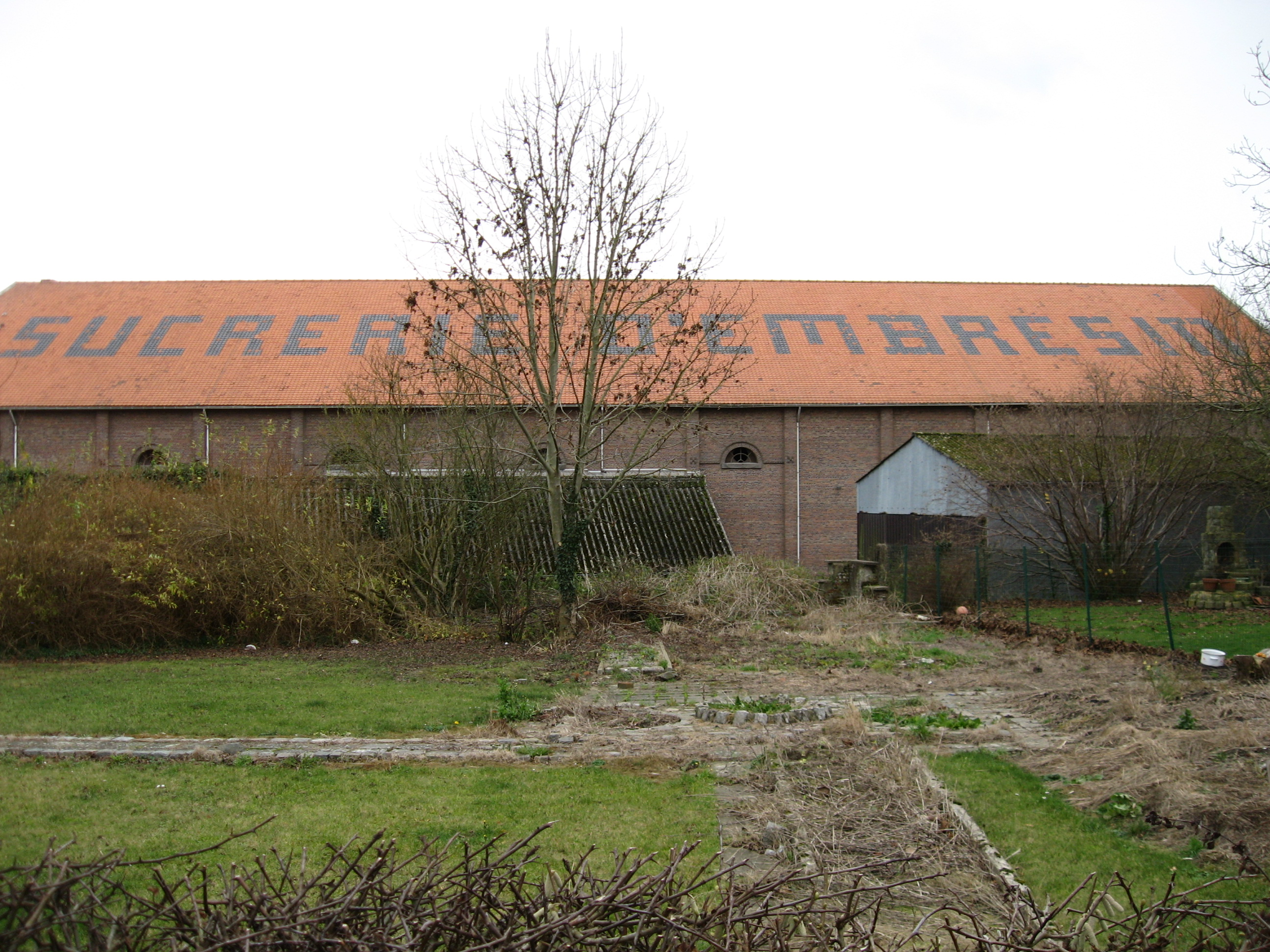 Old sugar refinery storage in Ambresin. This was connected with a smalltrack railway to the main railways. The old name of the locality is Embresin.